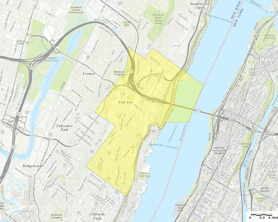 U.S. Census Bureau map of Fort Lee, New Jersey